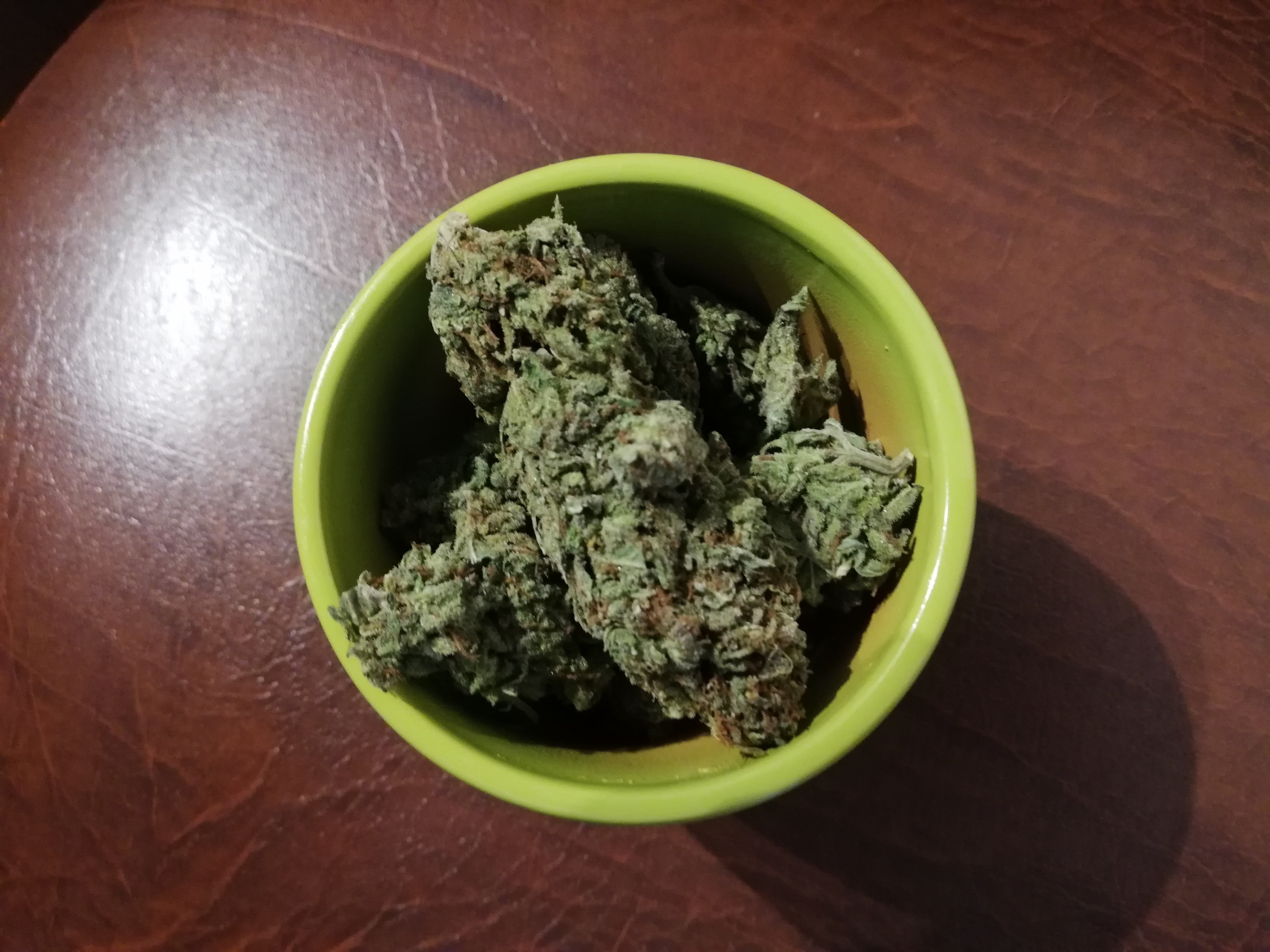 Buds of marijuana (cannabis indica inflorescence) in a small green ceramic cup.